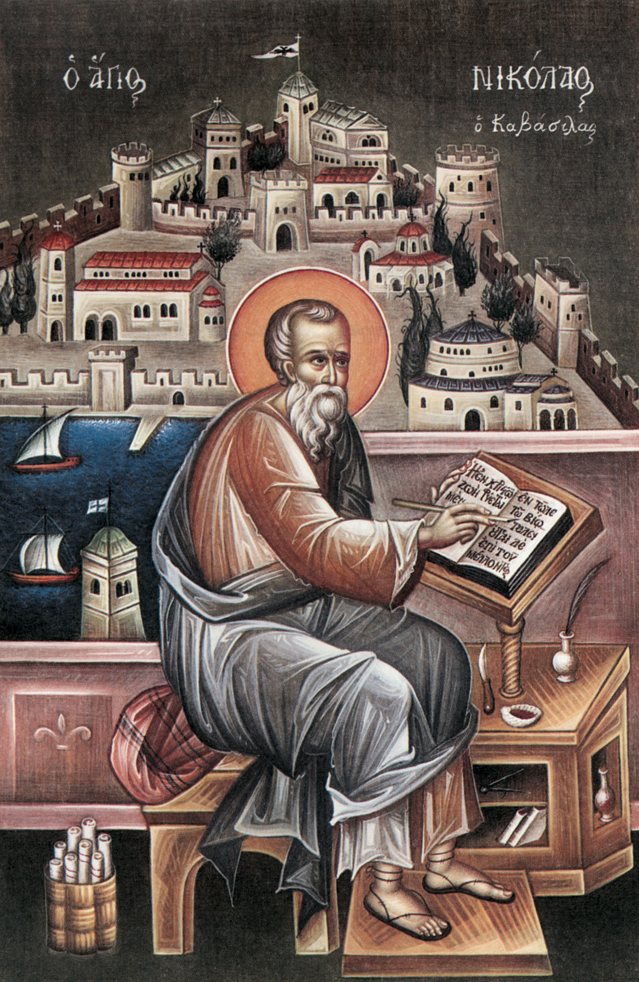 Icon righteous Nicholas Cabasilas